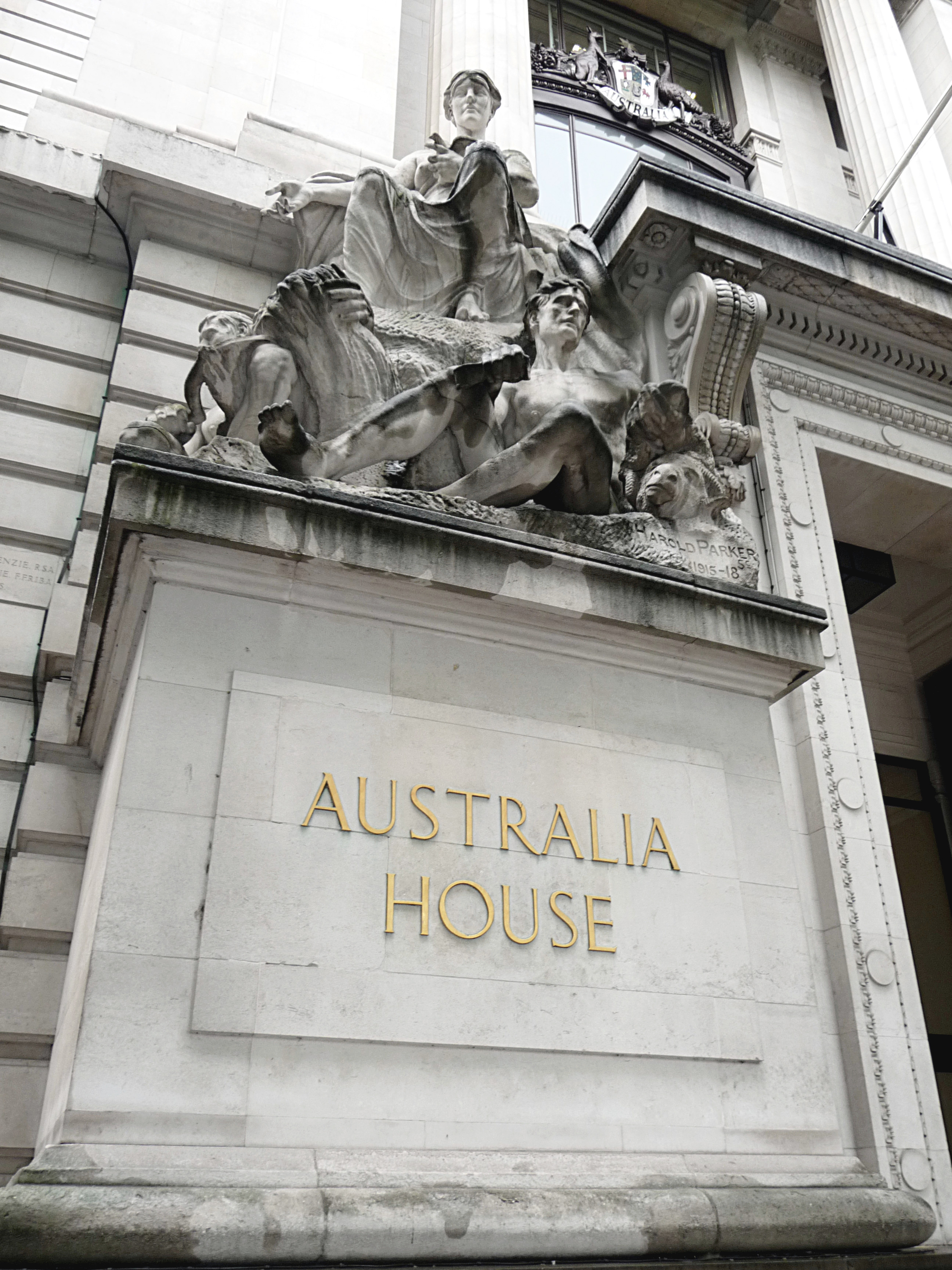 Australia House, Australian Embassy in London.